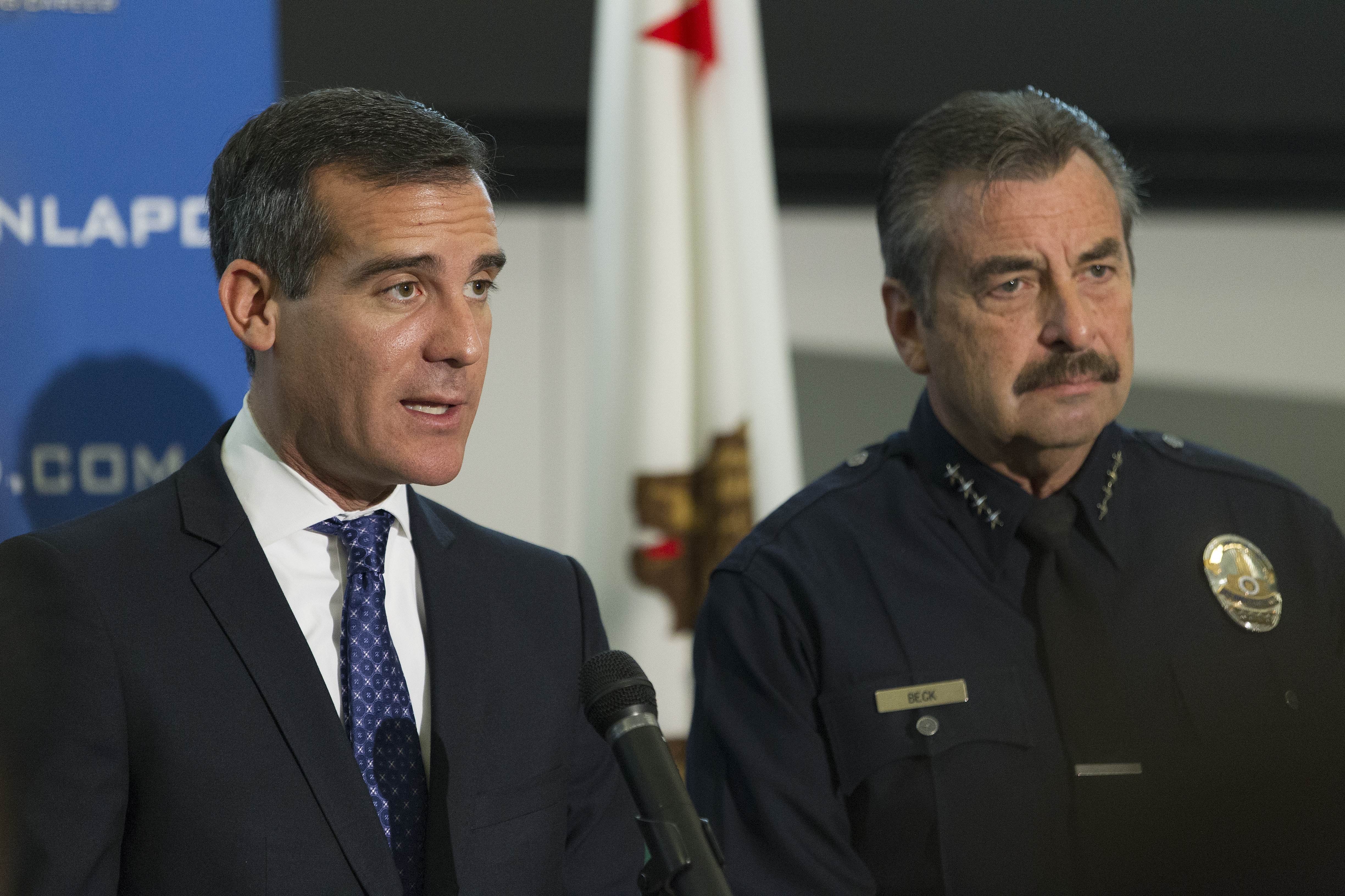 Los Angeles Mayor Eric Michael Garcetti (left) and Los Angeles Police Department Chief Charles Lloyd "Charlie" Beck discuss 2013 crime statistics of the city of LA at LAPD headquarters. 1/13/2014